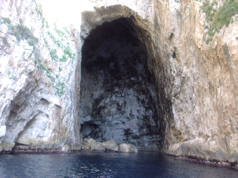 Vlora